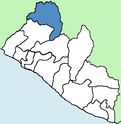 Map showing location of Lofa County in Liberia